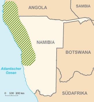 Welwitschia (Welwitschia mirabilis) – Area of Circulation